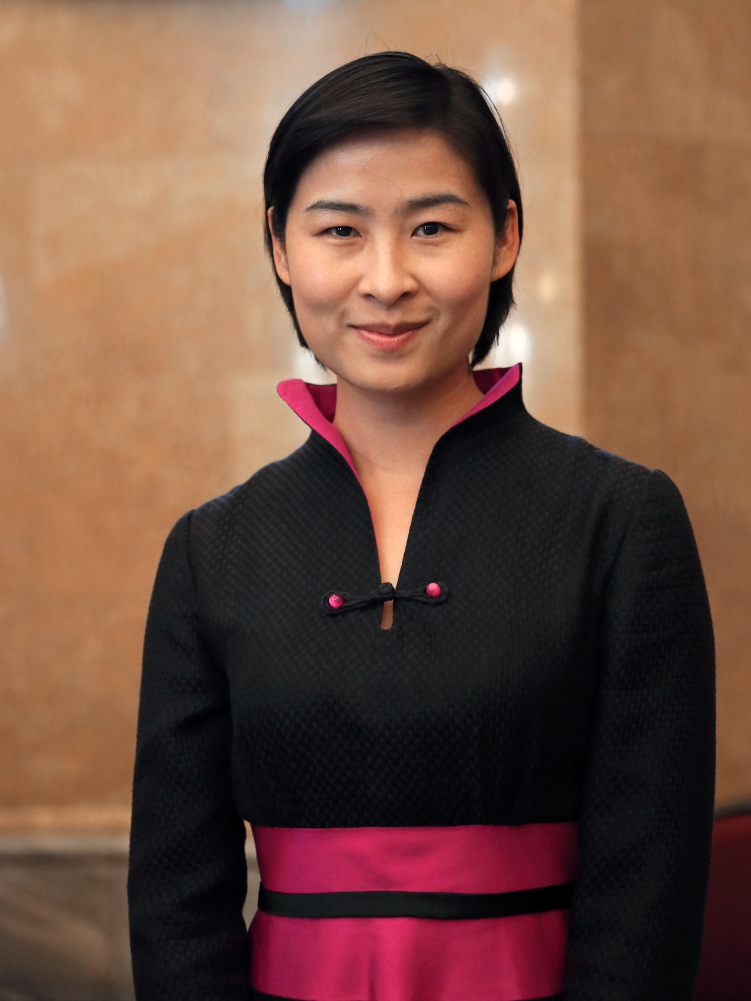 Liu Yang, in 2012 on board of Shenzhou 9 the first Chinese woman in space - Women in Space: The Next 50 Years (Celebrating 50 Years of Women in Space) - public panel and discussion on invitation of UNOOSA with Roberta Bondar, Janet L. Kavandi, Dumitru-Dorin Prunariu and Chiaki Mukai (Naturhistorisches Museum in Vienna, Austria).